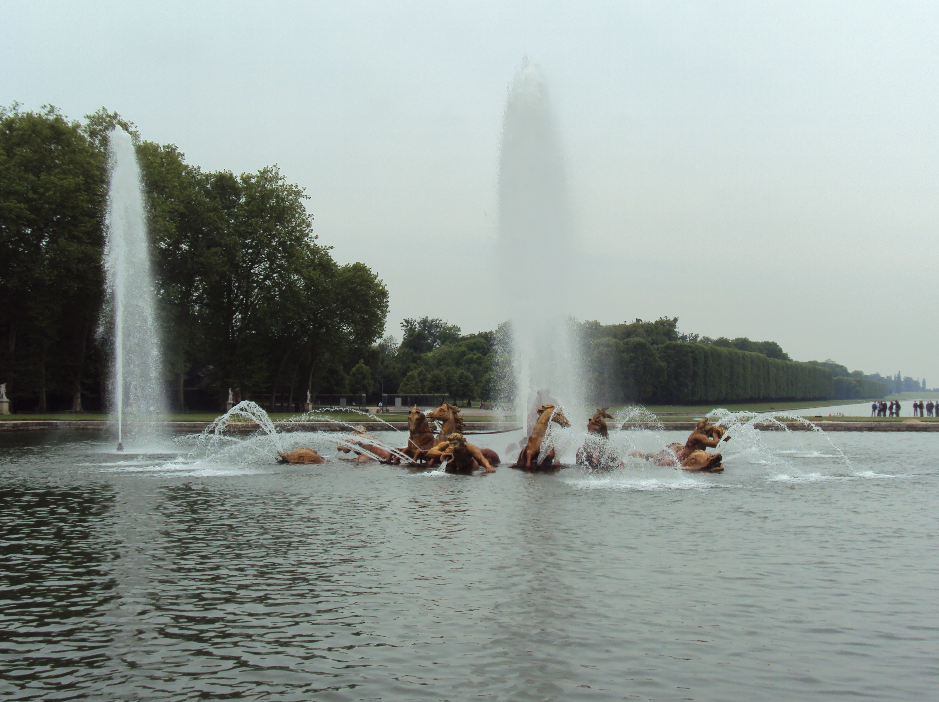 The Bassin d'Apollon in the gardens of Versailles.